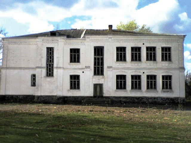 Фото 2000 р.